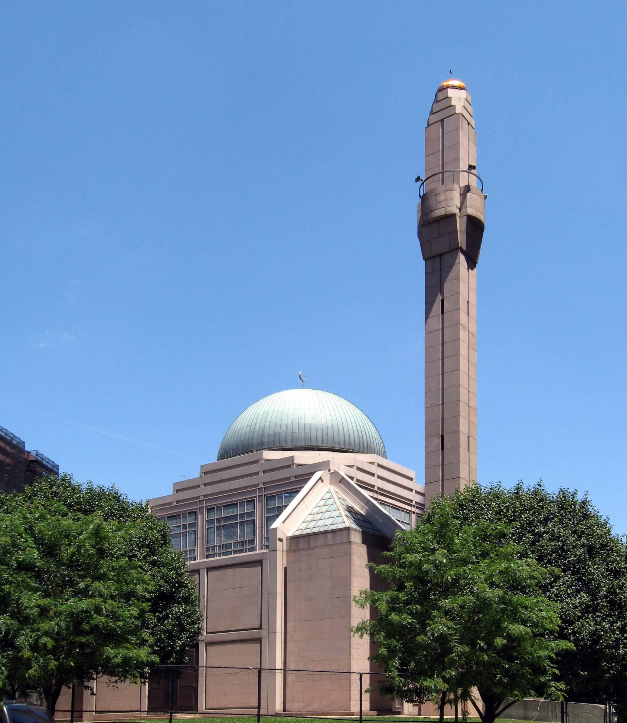 Looking northeast at the Islamic Cultural Center on East en:96th Street (Manhattan) on a sunny midday June 25, 2008.